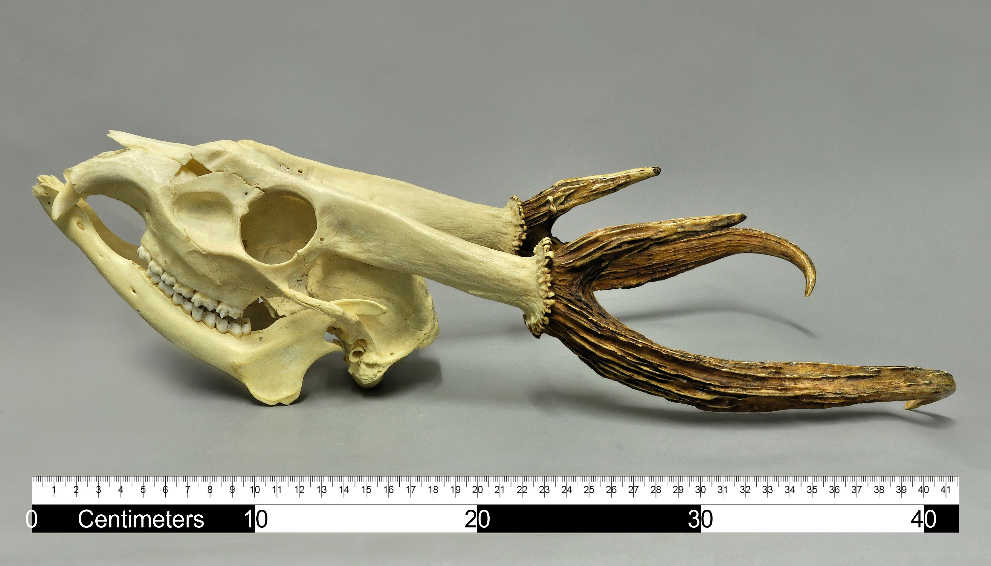 Giant muntjac Muntiacus vuquangensis , skull, Coll. Museum Wiesbaden